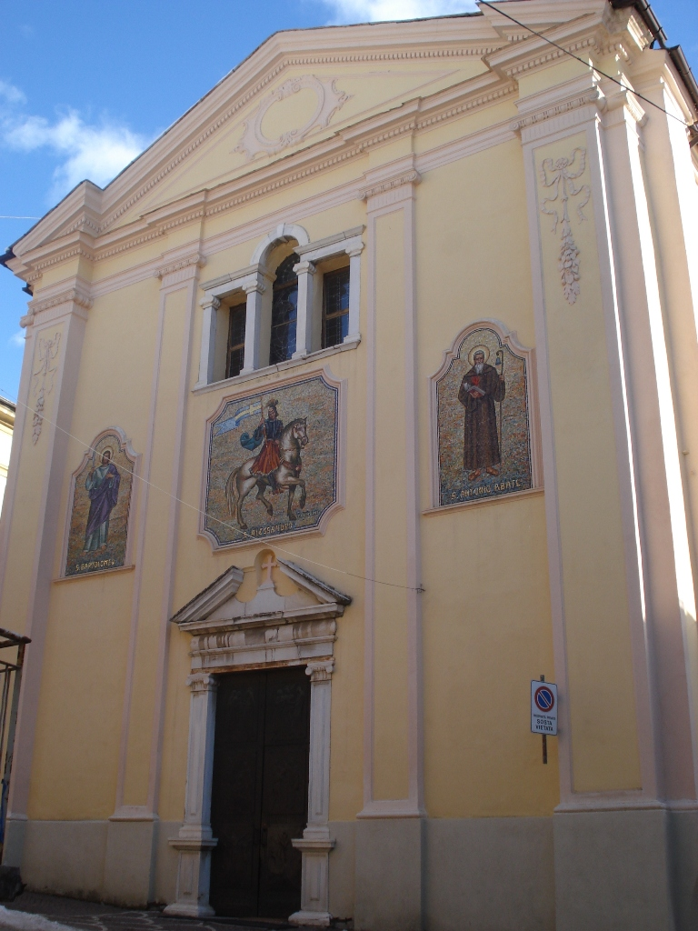 Church of St Bartholomew. Temù, Val Camonica